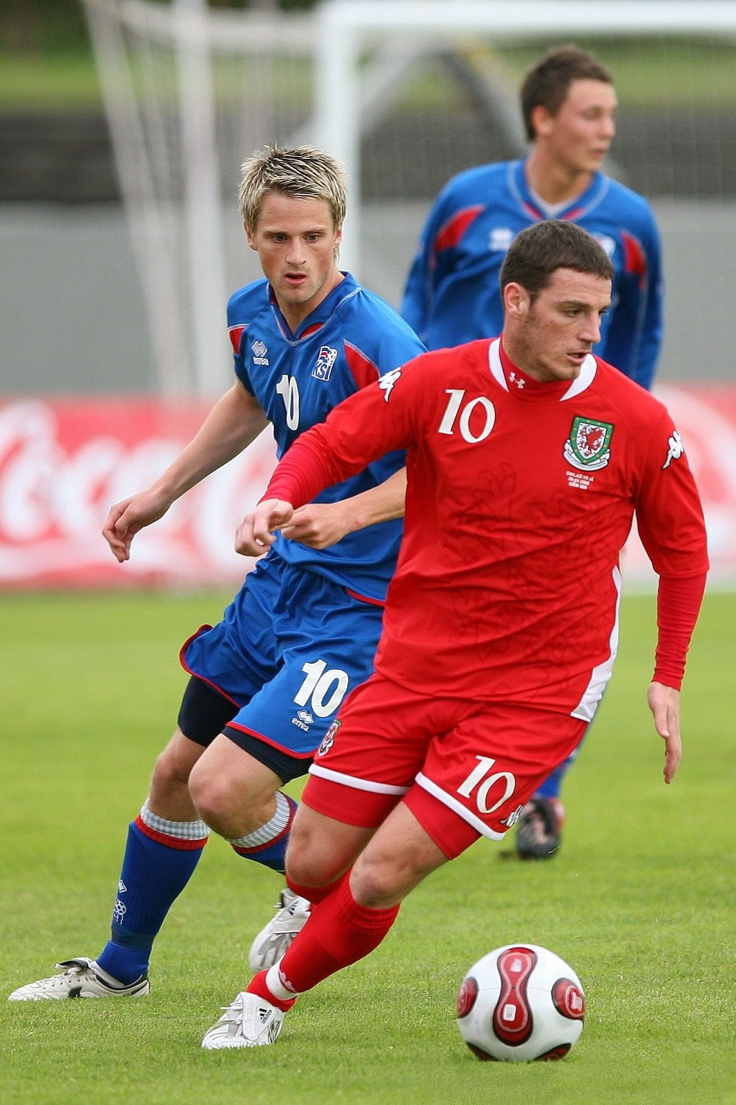 Football players Gunnar Heiðar Þorvaldsson of Iceland (blue) and Jason Koumas of Wales (red) during match against their national teams.